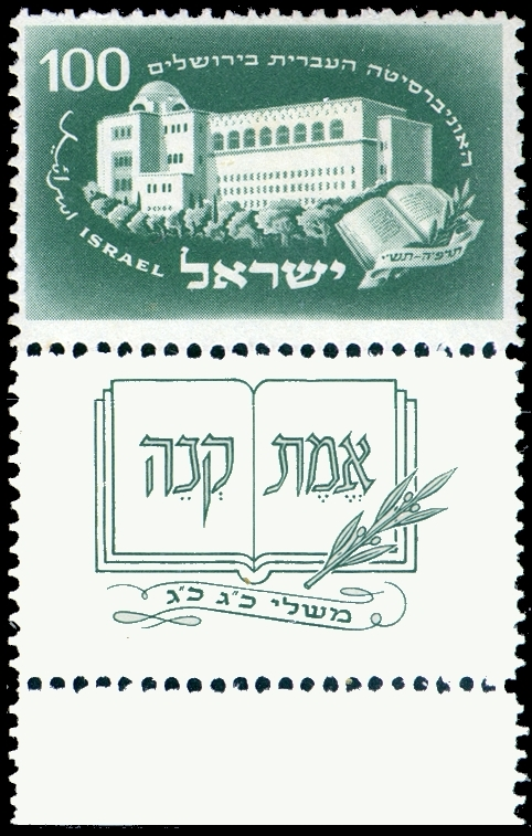 Israeli stamp depicting the library building of the Hebrew University in Jerusalem on Mount Scopus